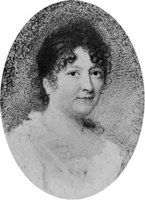 Portrait of Mary Aikenhead (1787–1858), foundress of the order Religious Sisters of Mercy by an unknown artist, ca. 1807